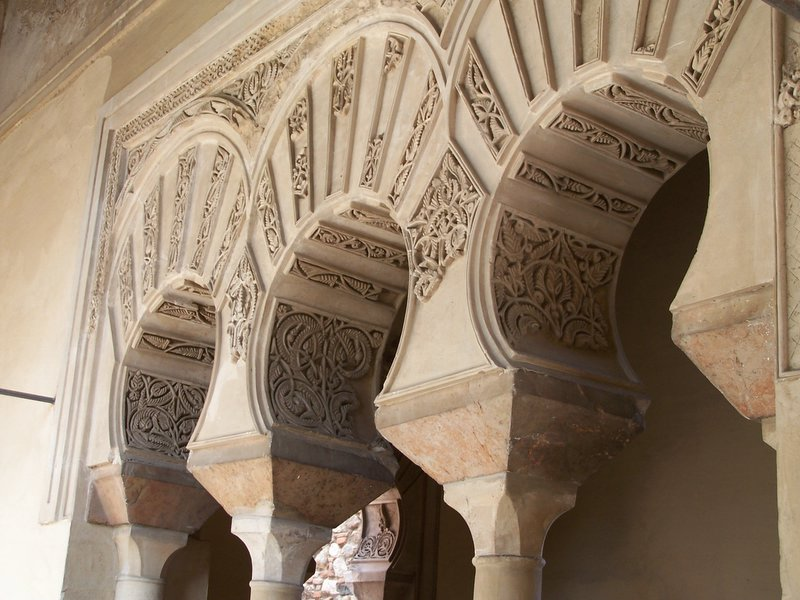 Arches of the Cuartos de Granada in the Málaga Alcazaba.